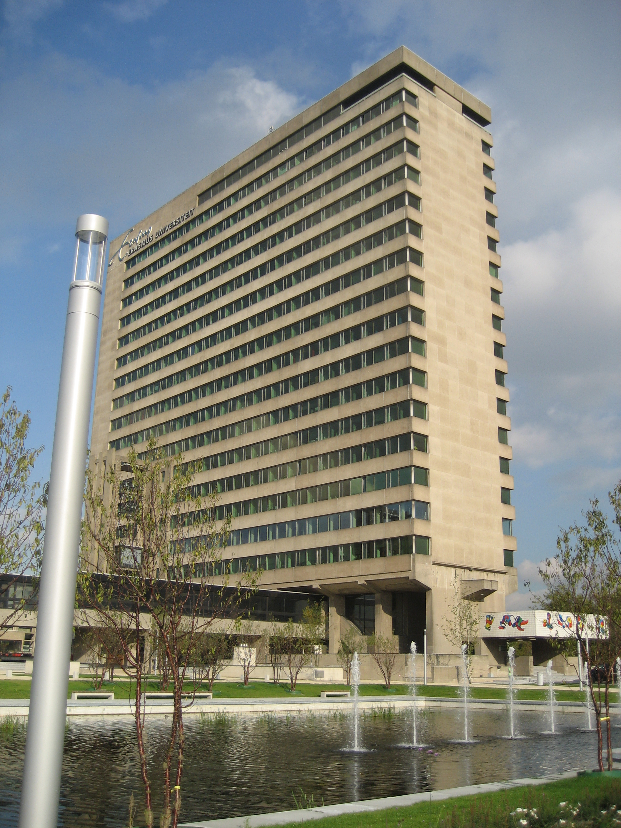 Erasmus University Rotterdam (The Netherlands). H-building. Architects: Cornelis (Kees) Elffers & A. van der Heyden. Mural mosaic by Karel Appel